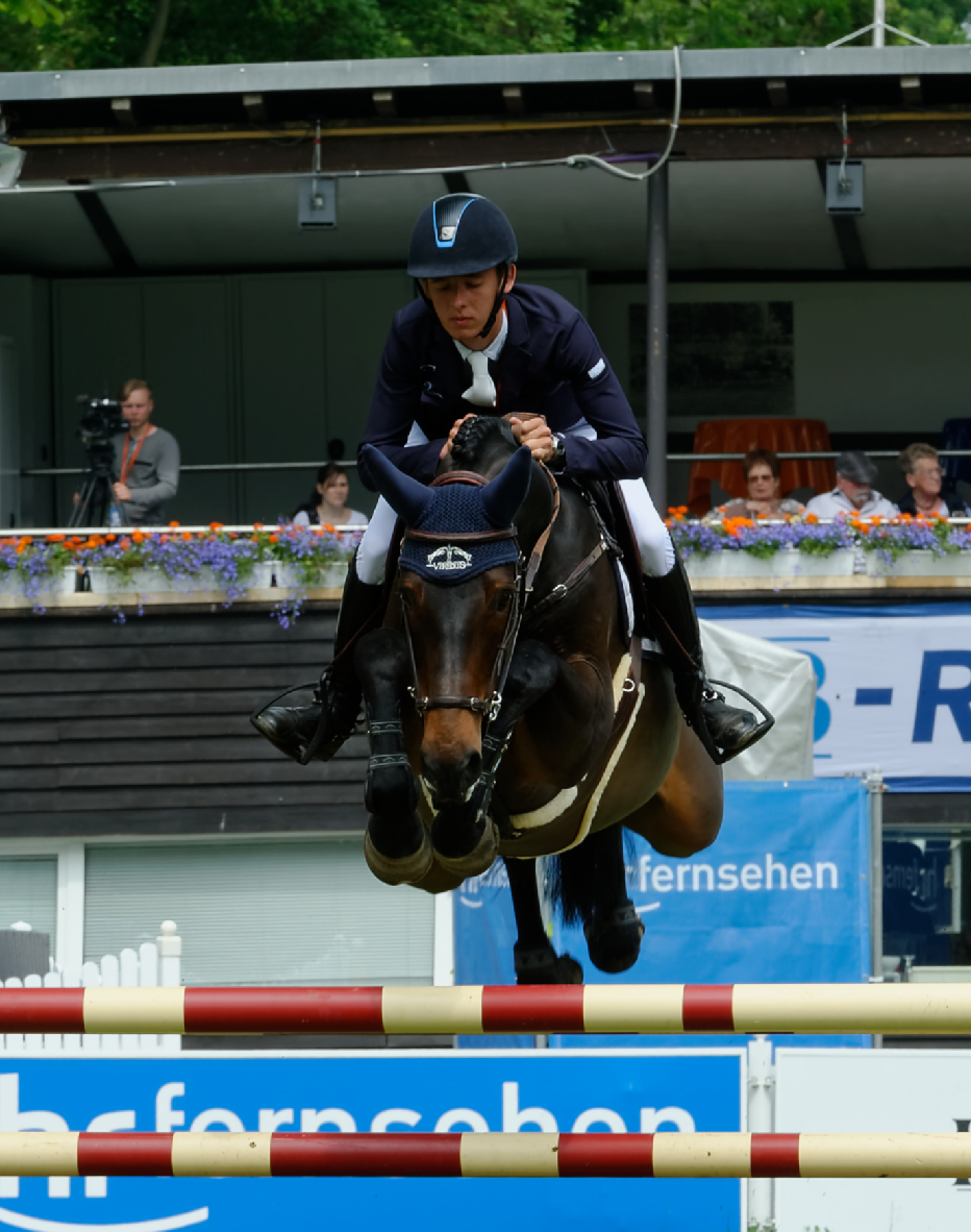 CSIYH* int. Springprüfung nach Strafpunkten und Zeit Internationales Pfingstturnier Wiesbaden 2015 The making of this document was supported by the Community-Budget of Wikimedia Germany.